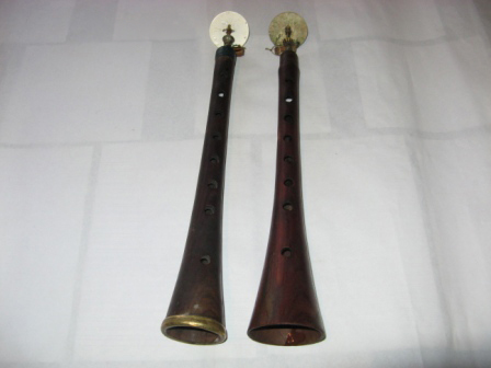 ზურნა.